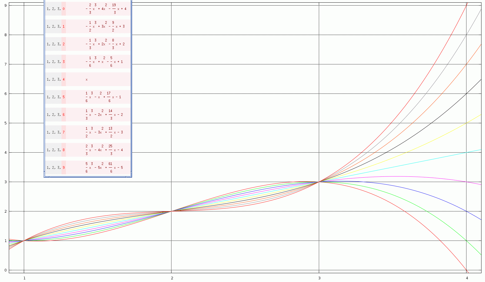 Lagrange polynomials and their graphs for ten possible continuations (0 to 9) of the sequence 1,2,3; each polynomial evaluates to 1,2,3, and the continuation at input 1,2,3, and 4, respectively; the "correct" continuation 4 leads to the polynomial of least degree